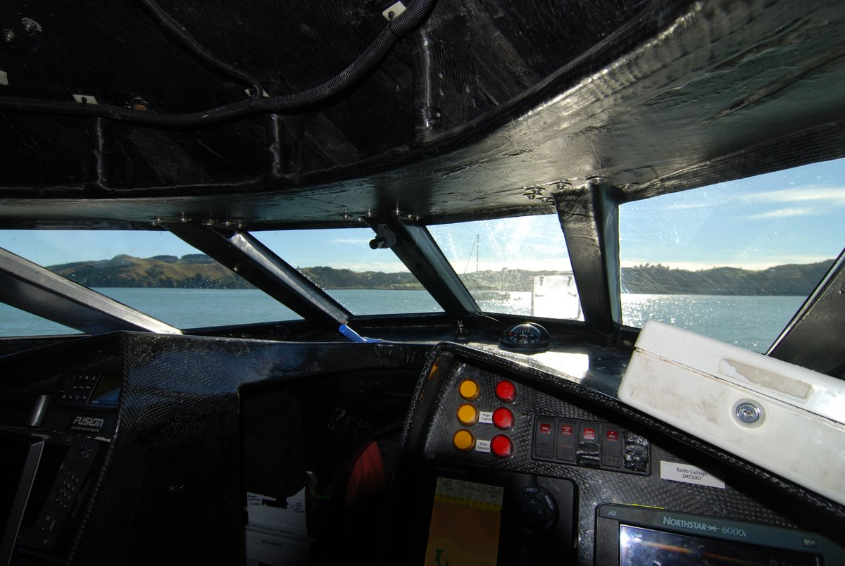 Skipper's view of Raglan Harbour. Imagine sitting here when EARTHRACE is out wave piercing!!